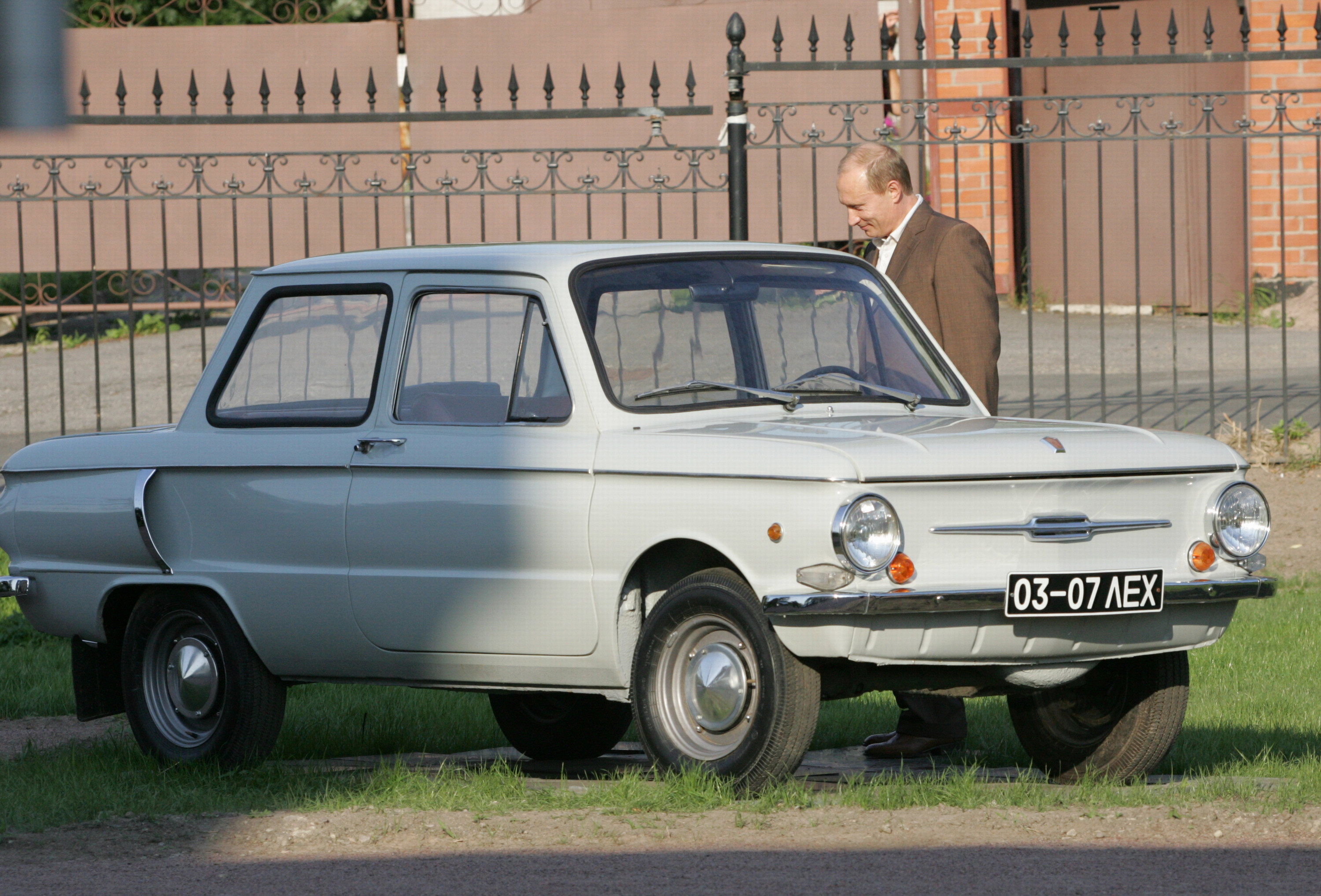 Putin with his 1972 Zaporozhets